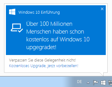 Denglish, the creative mash-up of English and German, Shown here by Microsoft with "upgegradet" on a Windows 10 reminder.